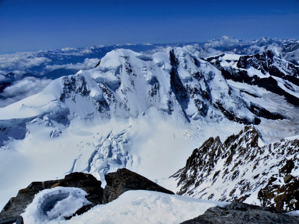 Lyskamm mountain from the north side as seen on the top of the Dufourspitze mountain, 2011.